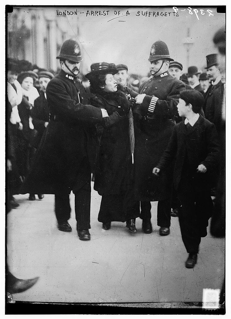 London - arrest of a suffragette